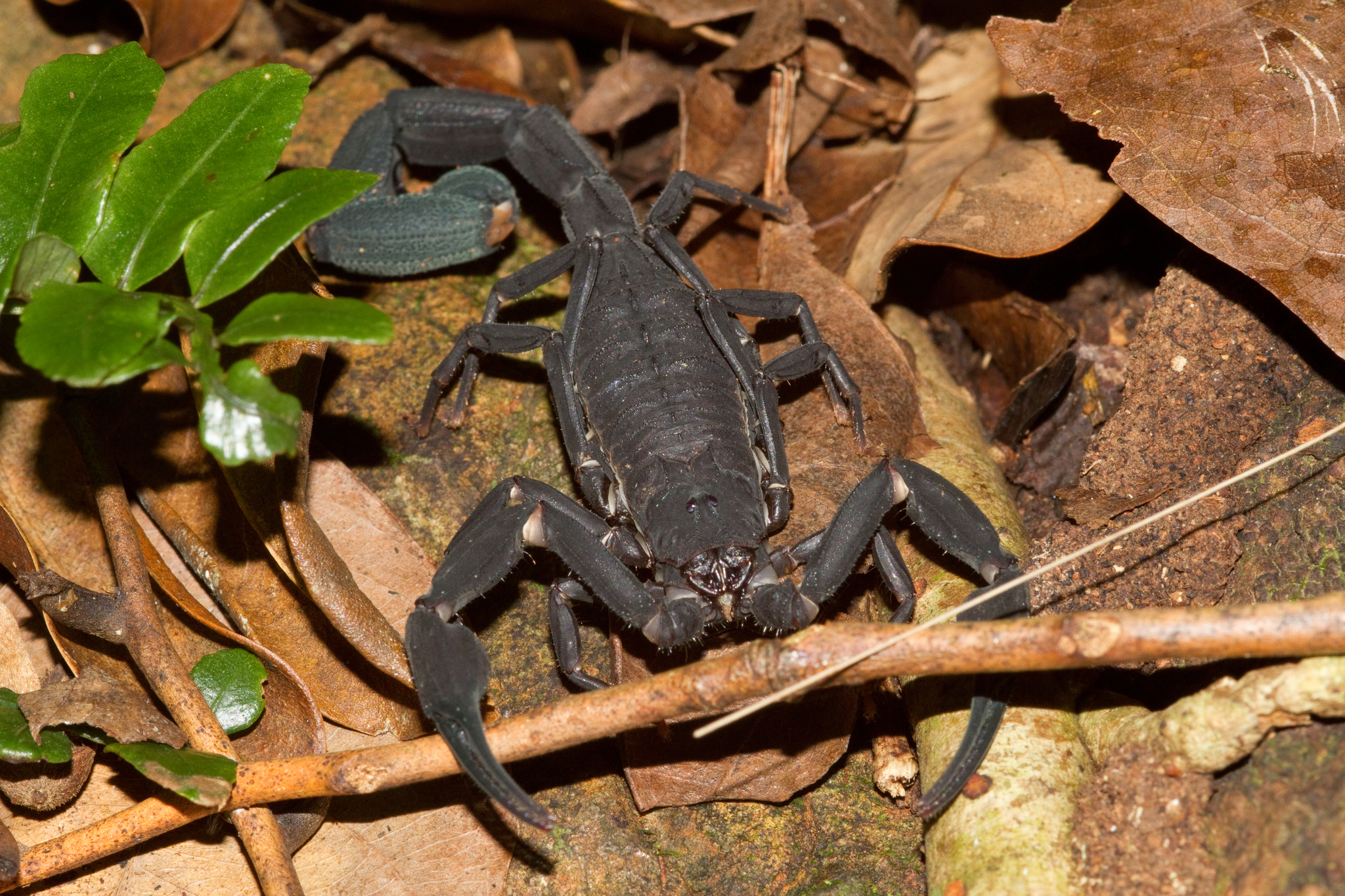 Tityus pachyurus. Species of arthropod.